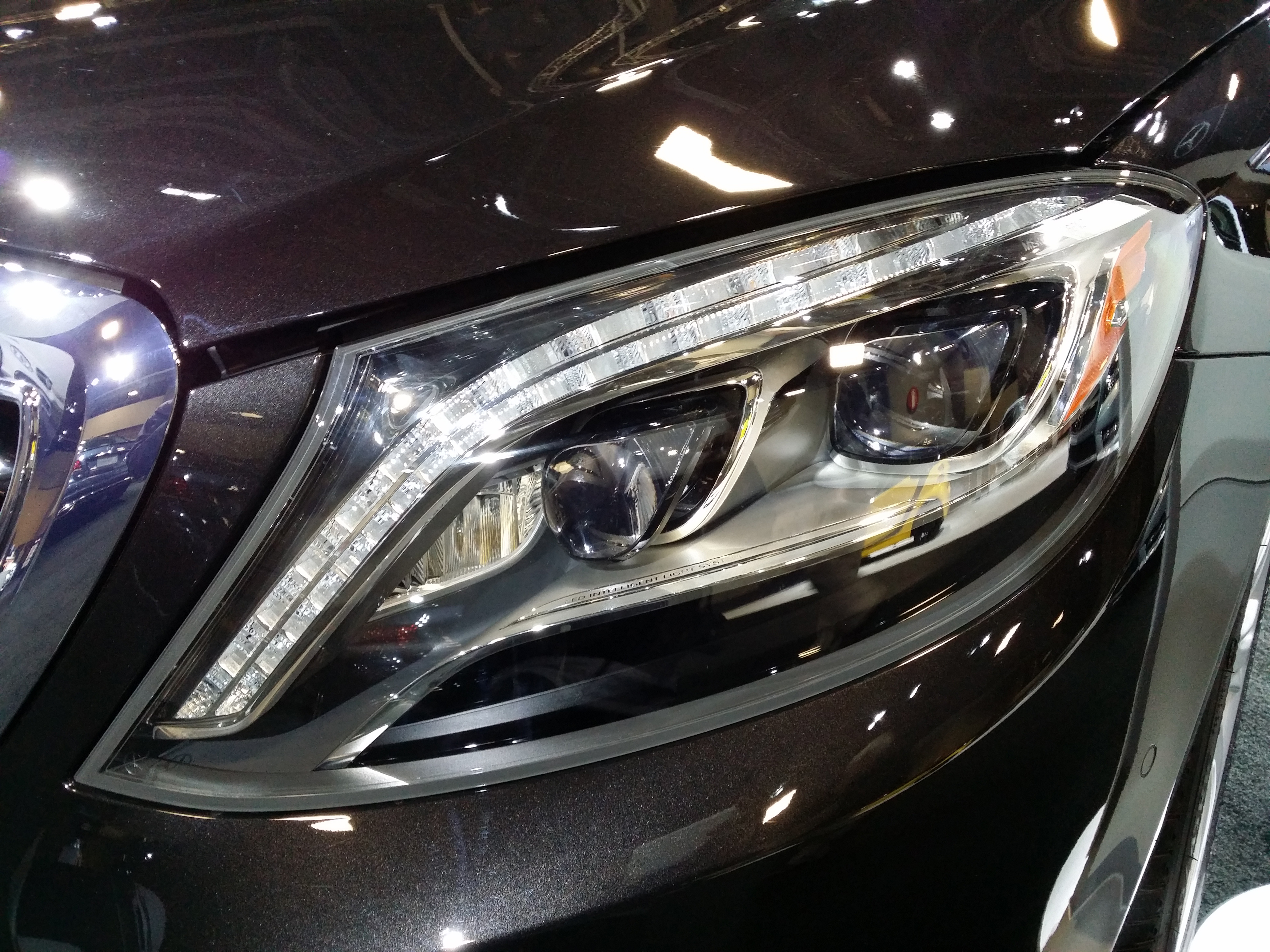 The all-LED headlight assembly found on the Mercedes-Benz S-Class (W222).